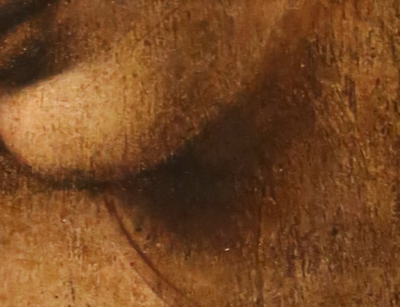 Leonardo da Vinci -'La Scapigliata' (a detail of the jaw and neck)